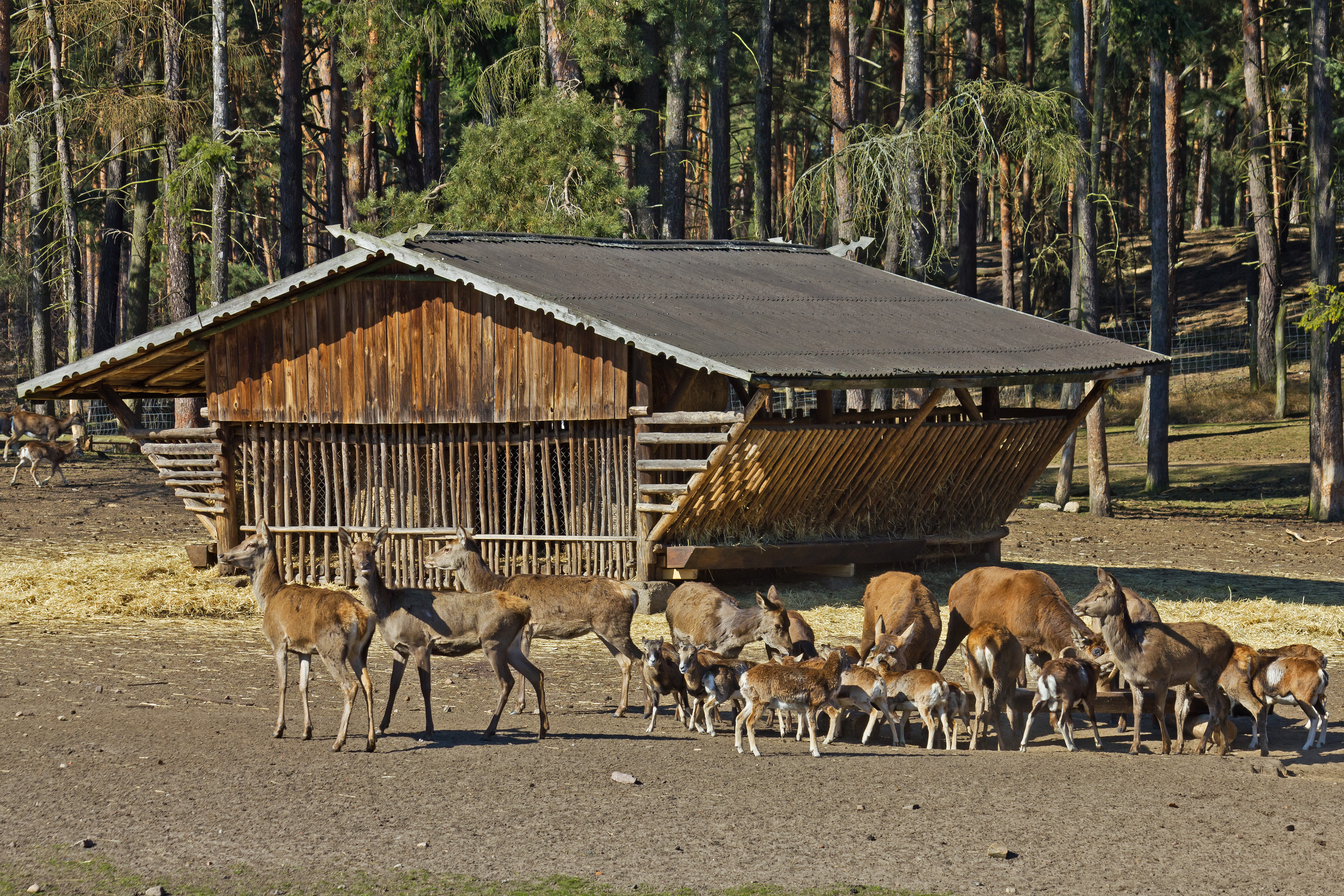 Wildlife park Johannismühle near Baruth/Mark, Brandenburg, Germany. The feed of the deers.